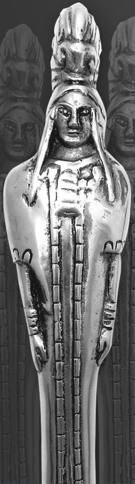 International Mayan Award